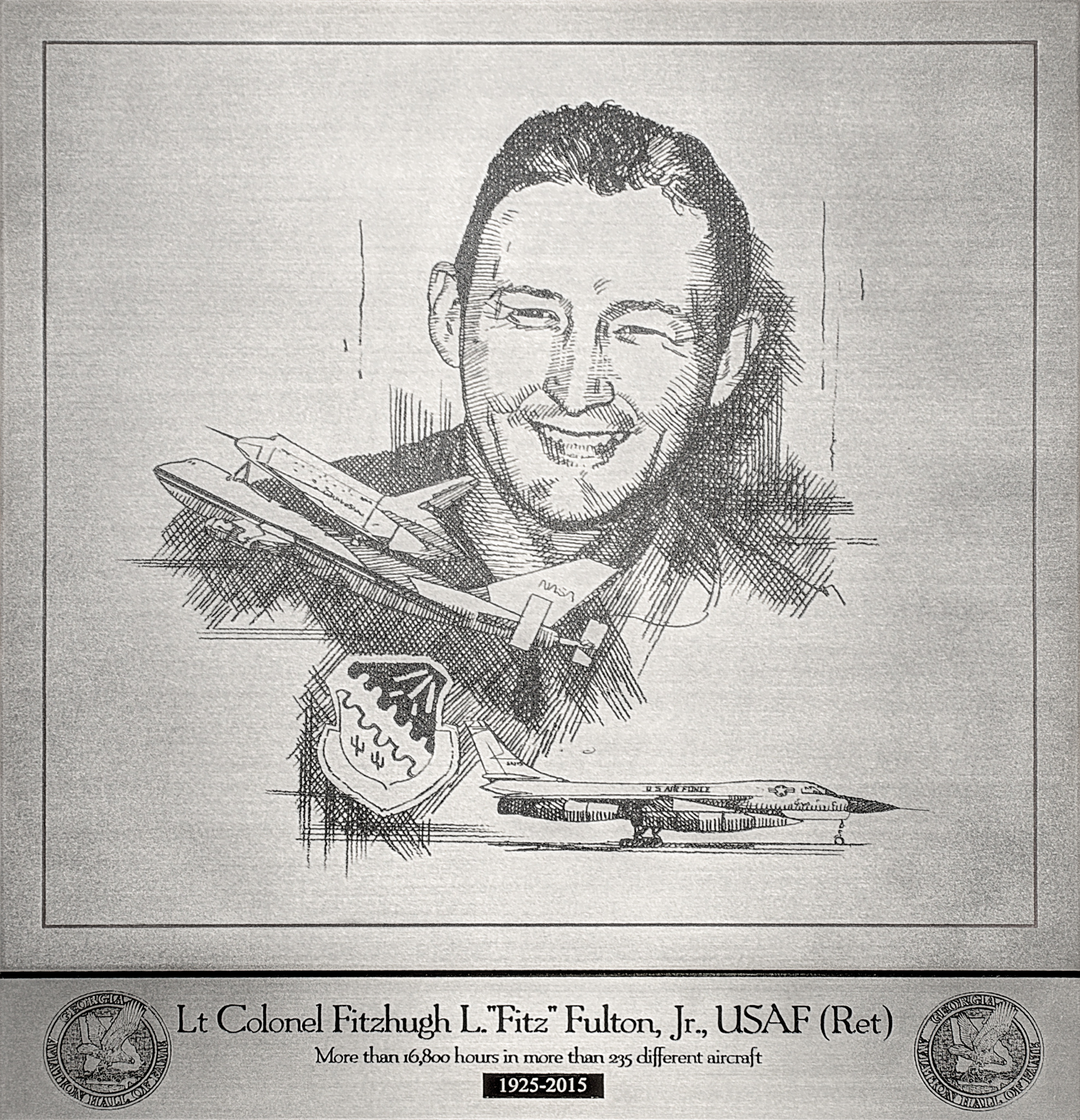 Lt. Colonel Fitzhugh L. "Fitz" Fulton, Jr. (1925 - 2015)